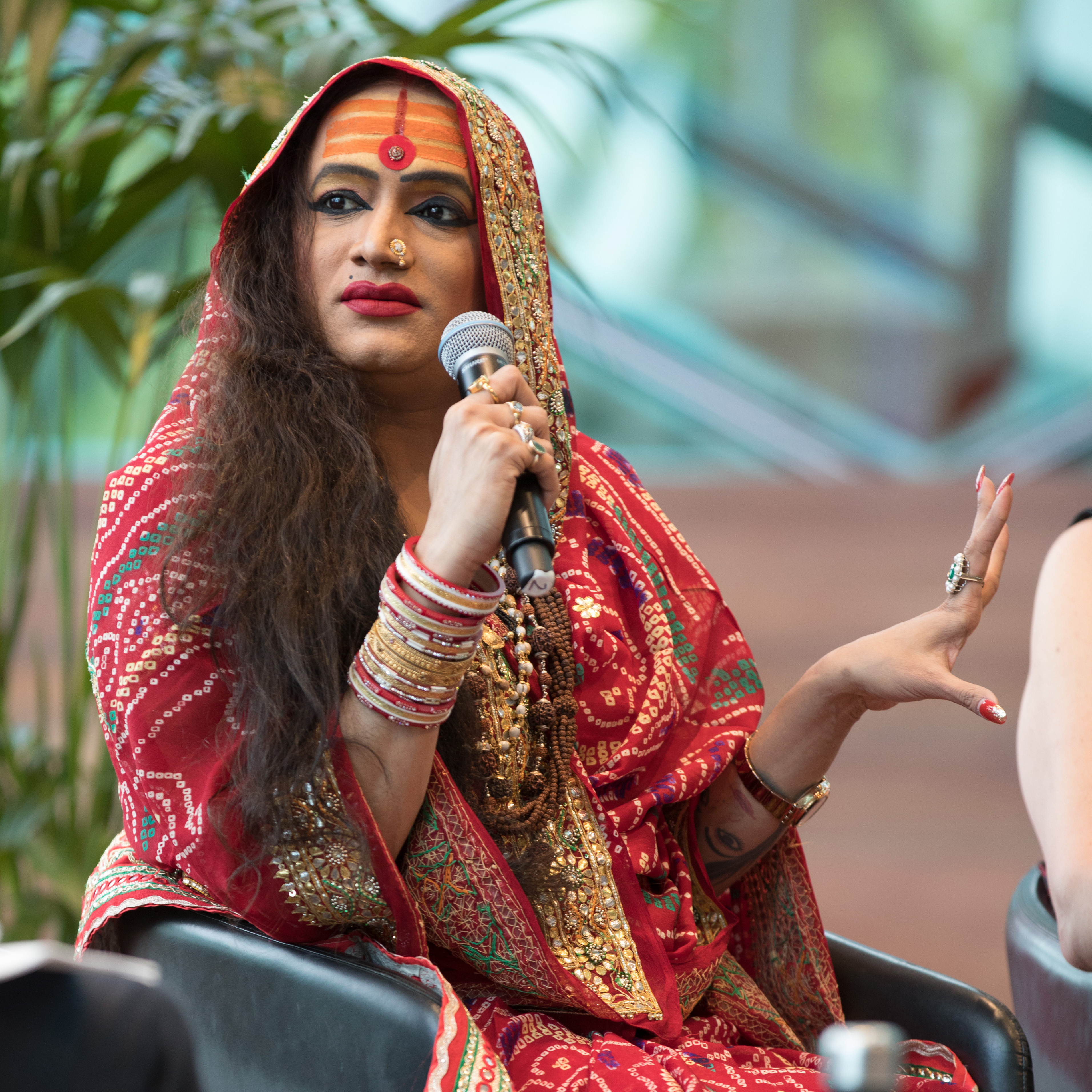 Laxmi Narayan Tripathi at JLF Melbourne on a panel titled "Gender and the Spaces Between" presented by Melbourne Writers Festival, Federation Square, Melbourne 2017.